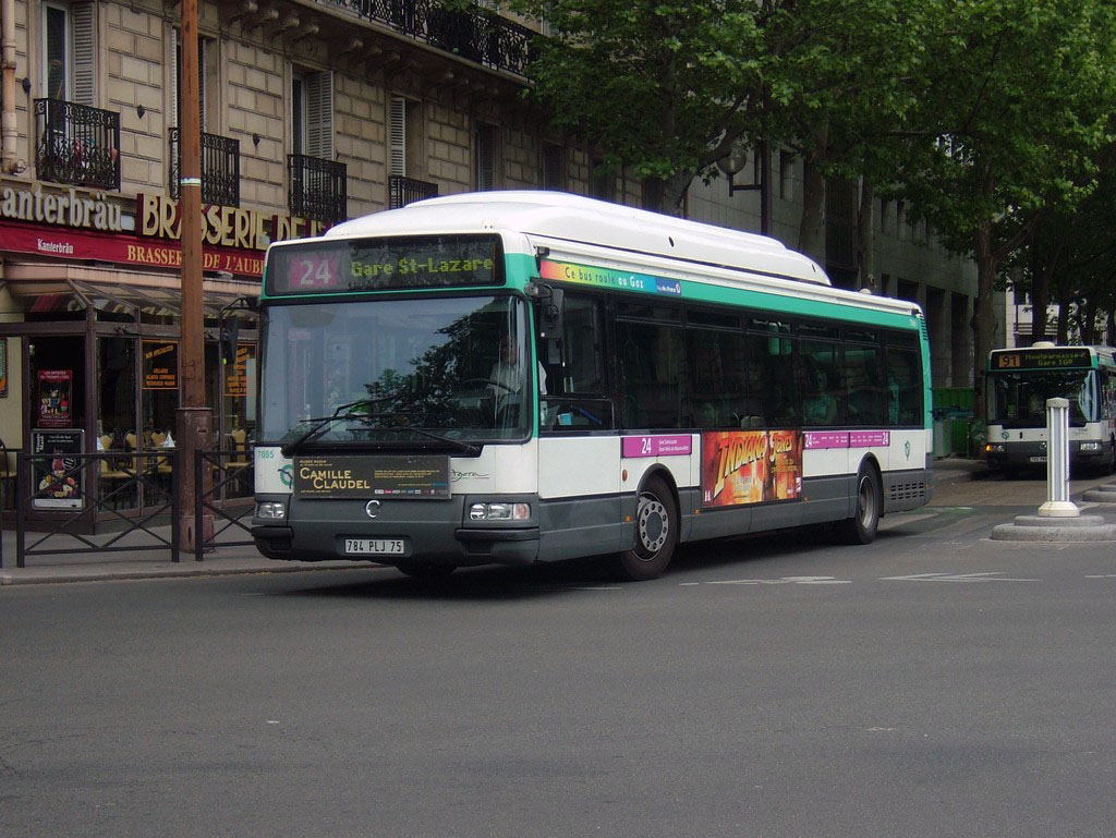 Irisbus Agora GNV on line 24 at Pont d'Austerlitz-Quai de la Rapée station